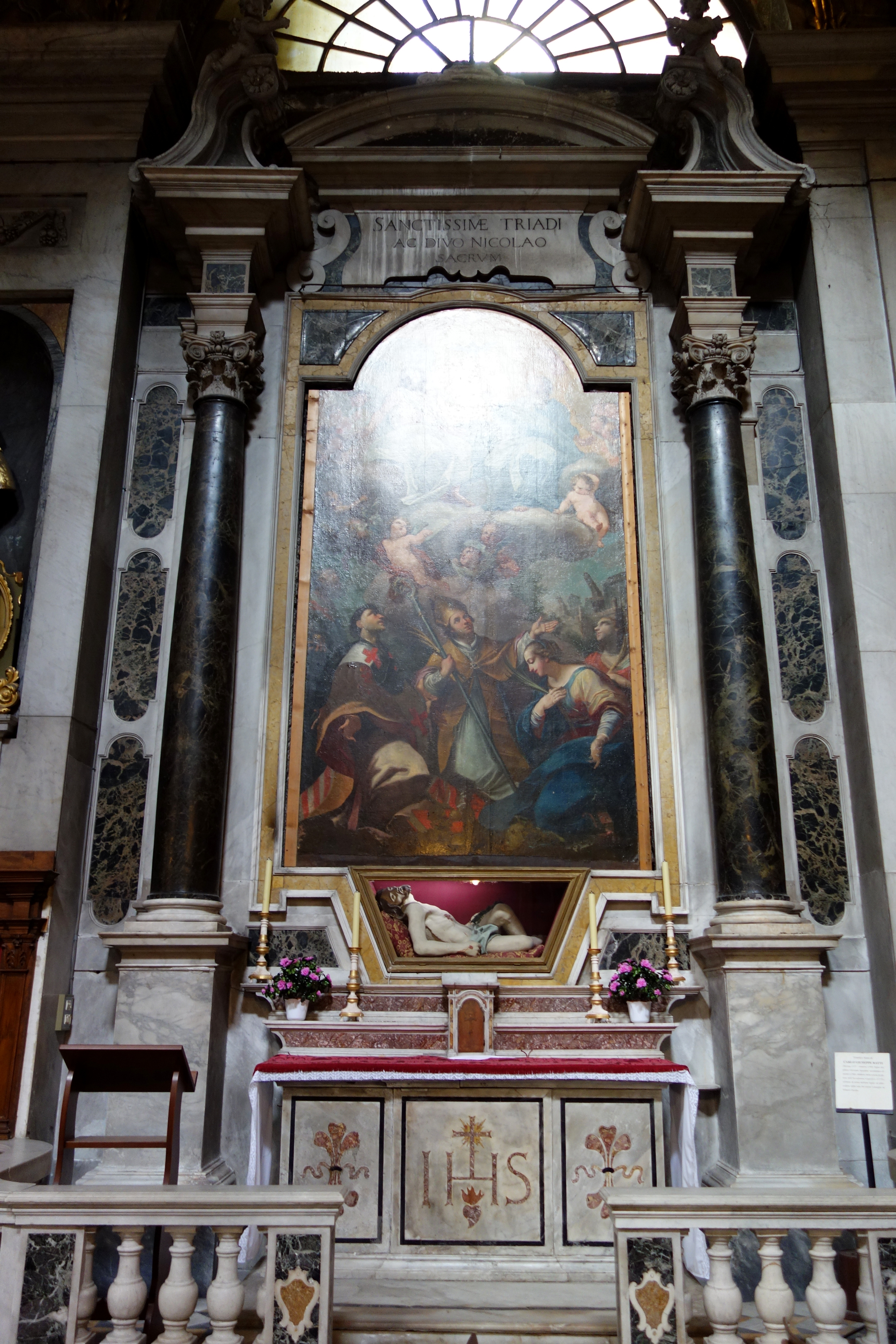 Artwork in Santa Maria delle Vigne (Genoa, Italy). This work is old enough so that it is in the public domain.